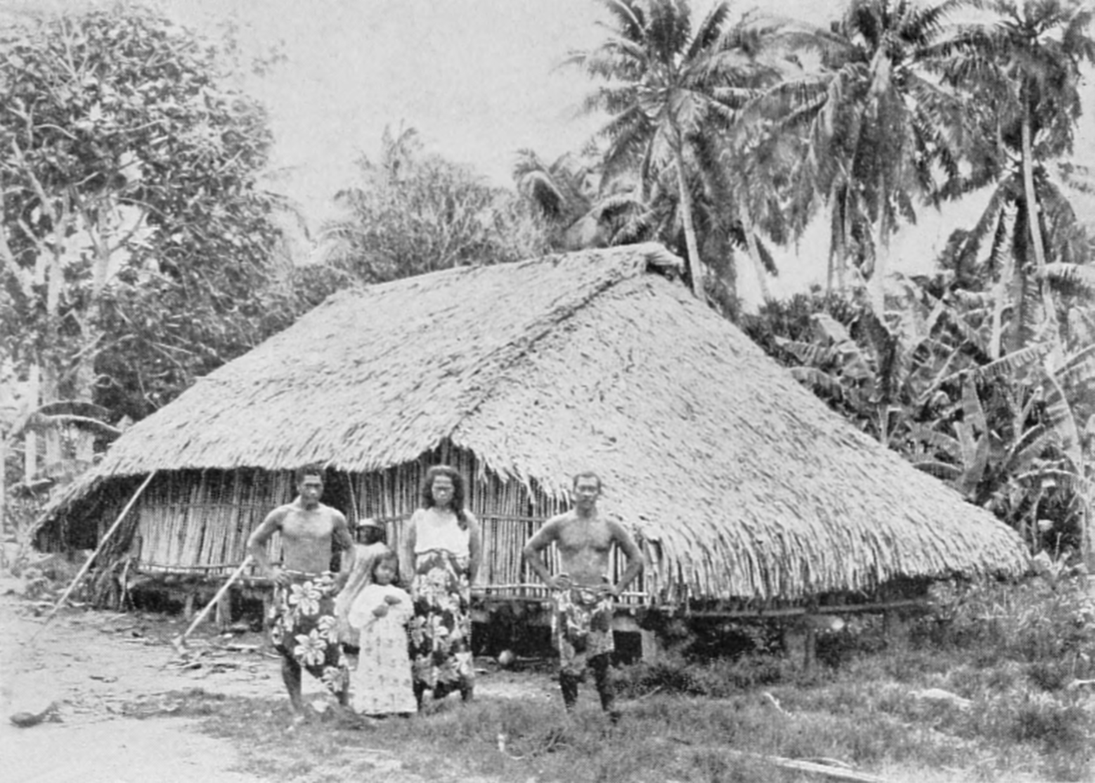 House and natives of Bora Bora, Society Islands